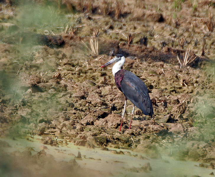 Woolly-necked Stork Ciconia episcopus at/ near Hodal in Faridabad District of Haryana, India.